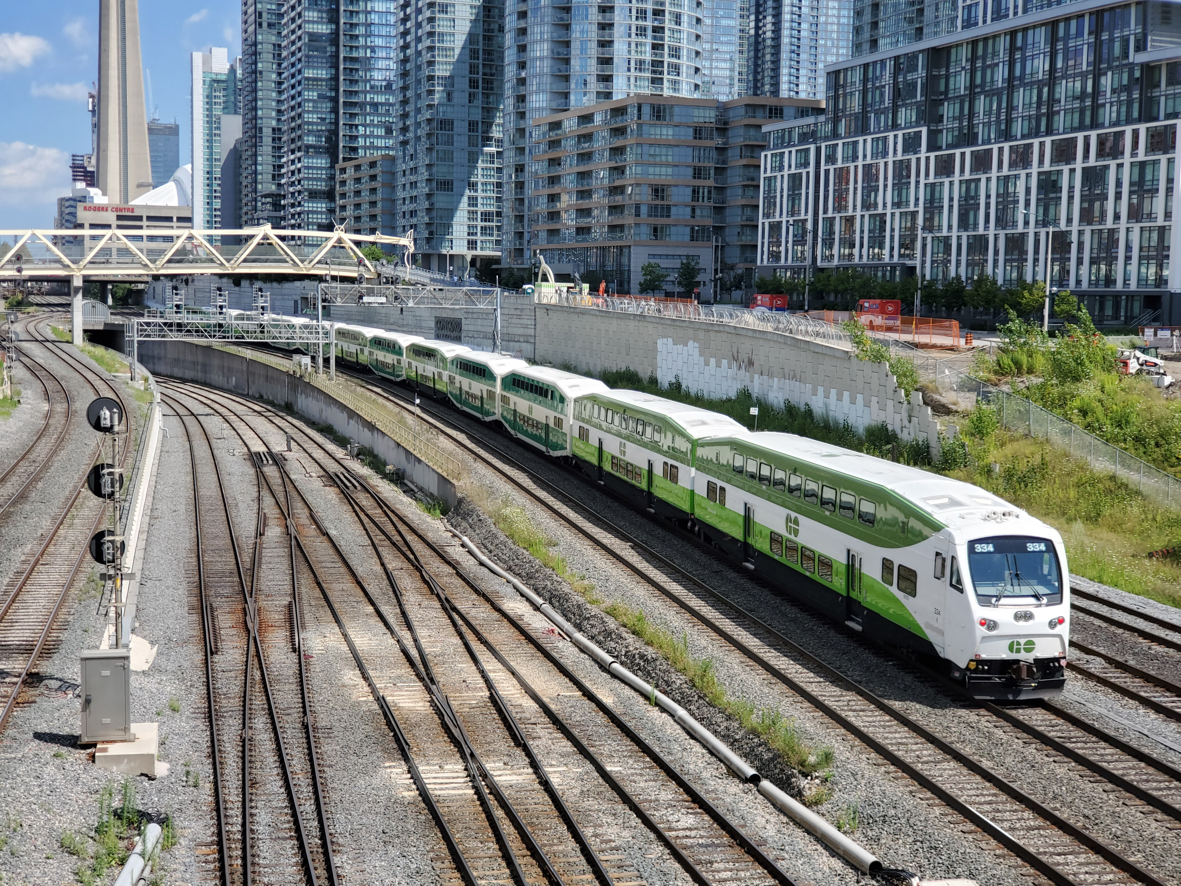 GO Transit 334 (cab car) in Toronto, Ontario